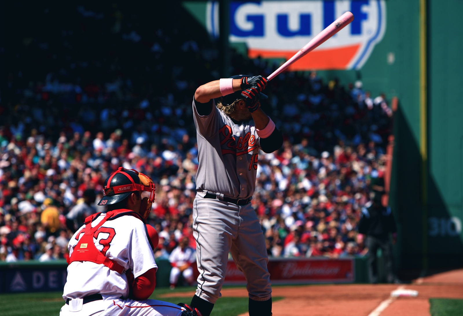 "Mother's Day Miracle" EF 70-200mm 2.8L IS